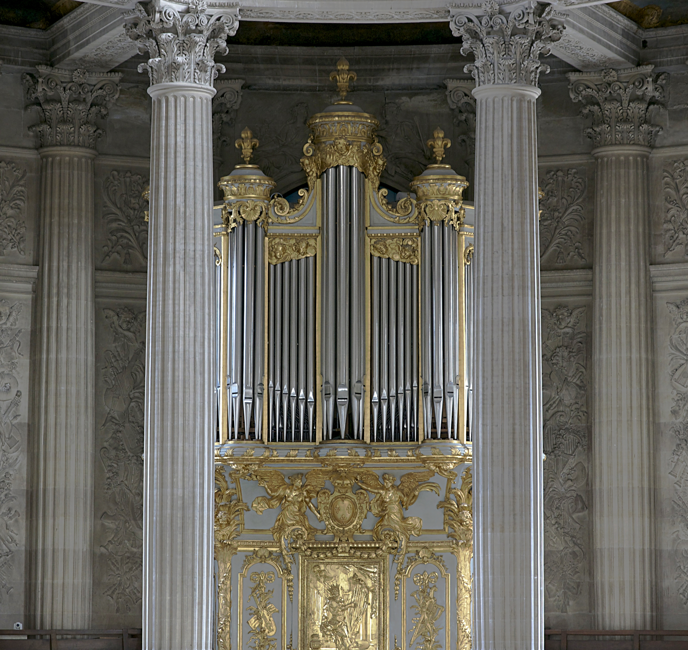 The visible part of the organ (end of 17th century) of the "Chapelle Royale" of the Palace of Versailles. View from the King's tribune.